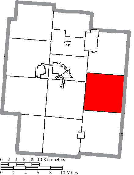 Map of the municipal and township boundaries of Jackson County, Ohio, United States, as of the 2000 census, with the location of Bloomfield Township highlighted. Township borders are shown only in unincorporated areas in order to differentiate incorporated and unincorporated areas more clearly.